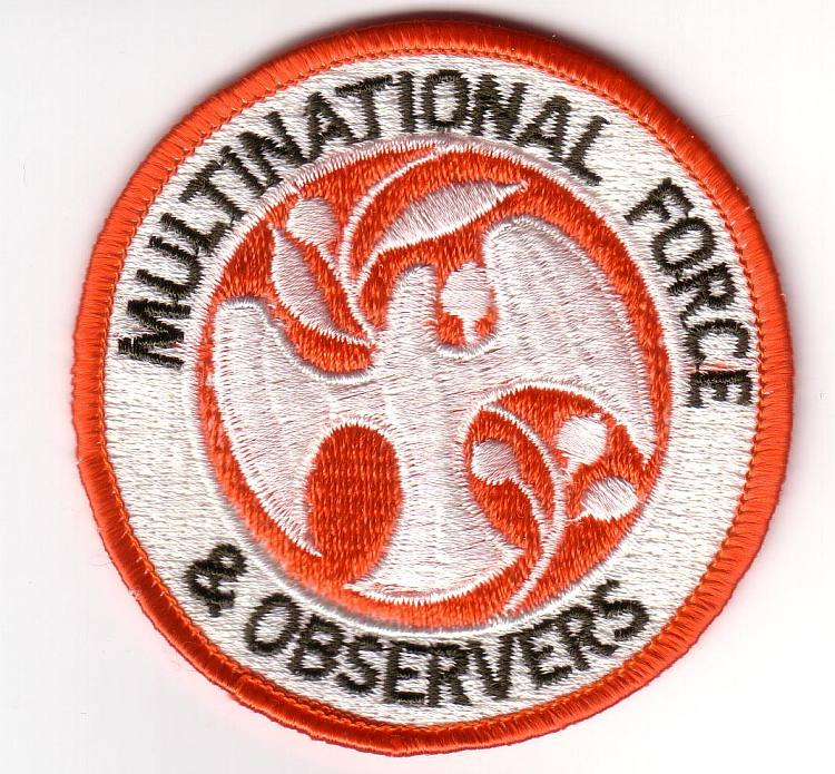 Multinational Force and Observers cloth badge